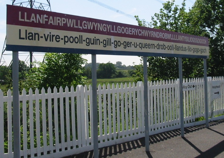 The sign at Llanfairpwllgwyngyllgogerychwyrndrobwllllantysiliogogogoch railway station gives an approximation of the correct pronunciation for English speakers: Llan-vire-pooll-guin-gill-go-ger-u-queern-drob-ooll-llandus-ilio-gogo-goch. The "ch" is as in the German "ich" and the "ll" is a voiceless lateral fricative, a sound that does not occur in English. See also Welsh language.